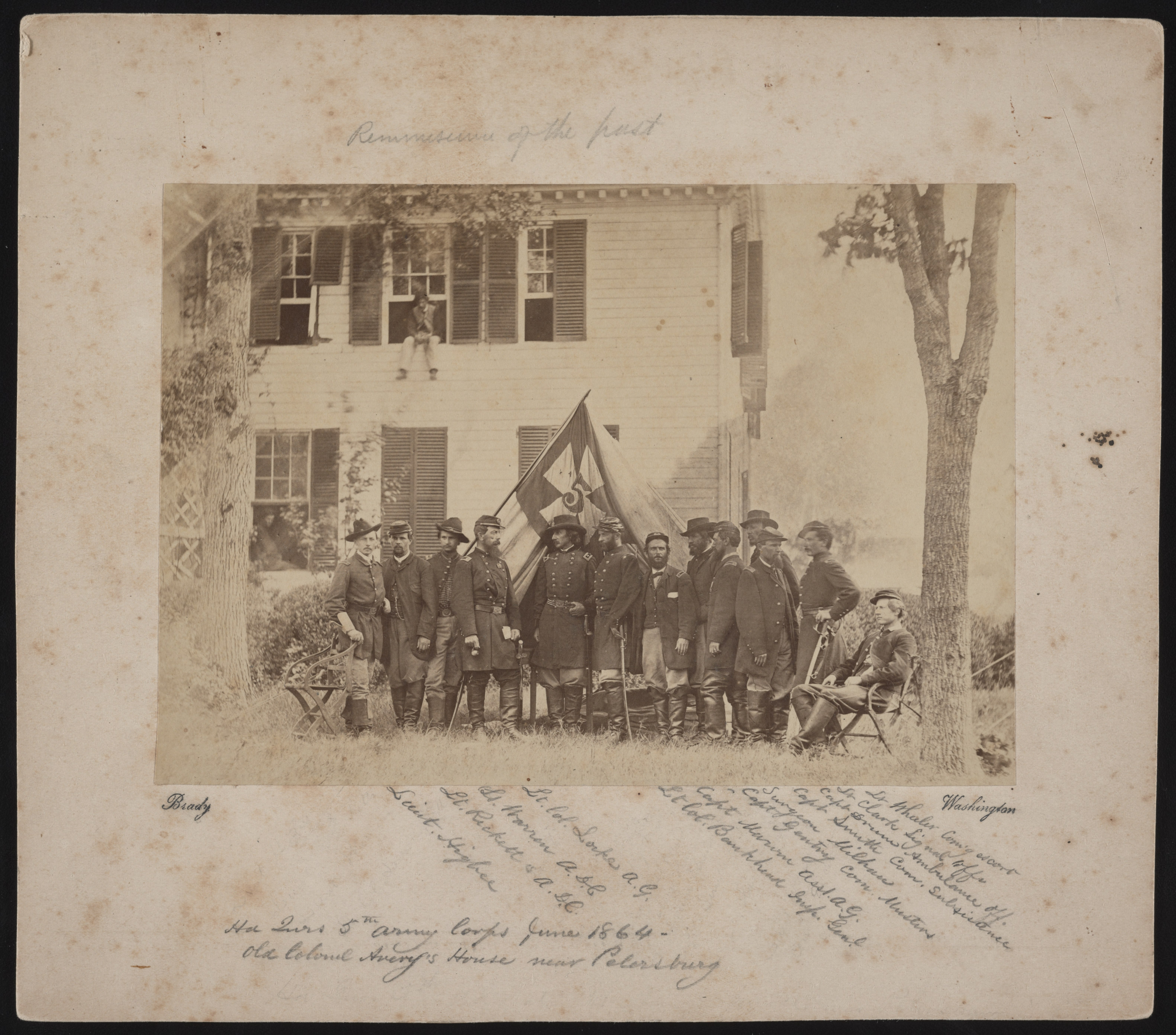 Title: Headquarters of the 5th Corps, Army of the Potomac, at the home of Col. Avery near Petersburg, Virginia] / Brady, Washington Abstract/medium: 1 photograph : albumen print on card mount ; sheet 14 x 20 cm, mount 23 x 26 cm (photograph format)